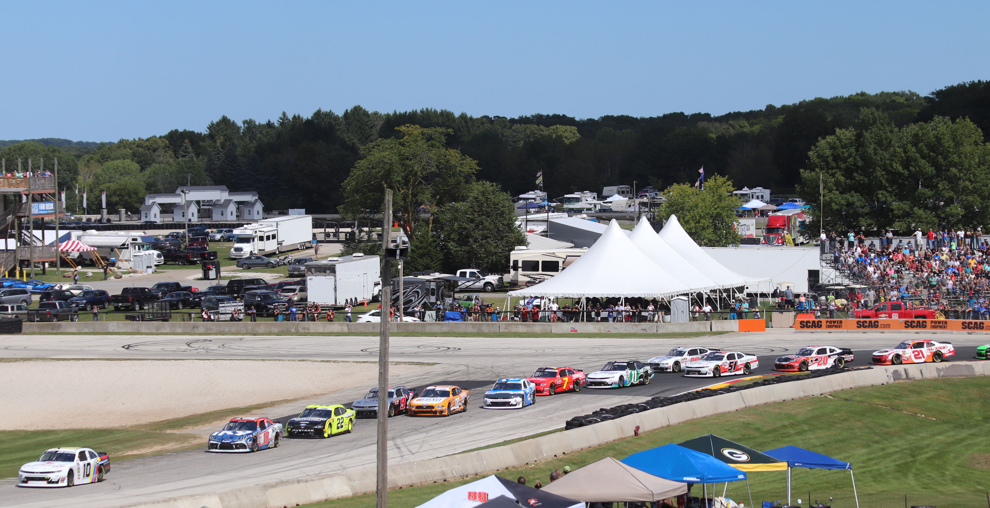 The highest qualifying cars in Turn 5 on lap 1 of the 2019 CTECH Manufacturing 160 at Road America